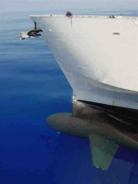 View of the starboard hull taken from the opposite port hull during sea trials in the Bahamas during flat calm seas. Note the small bow wake and the adjustable stabilizing canard (horizontal fin) attached to the submerged part of the hull.